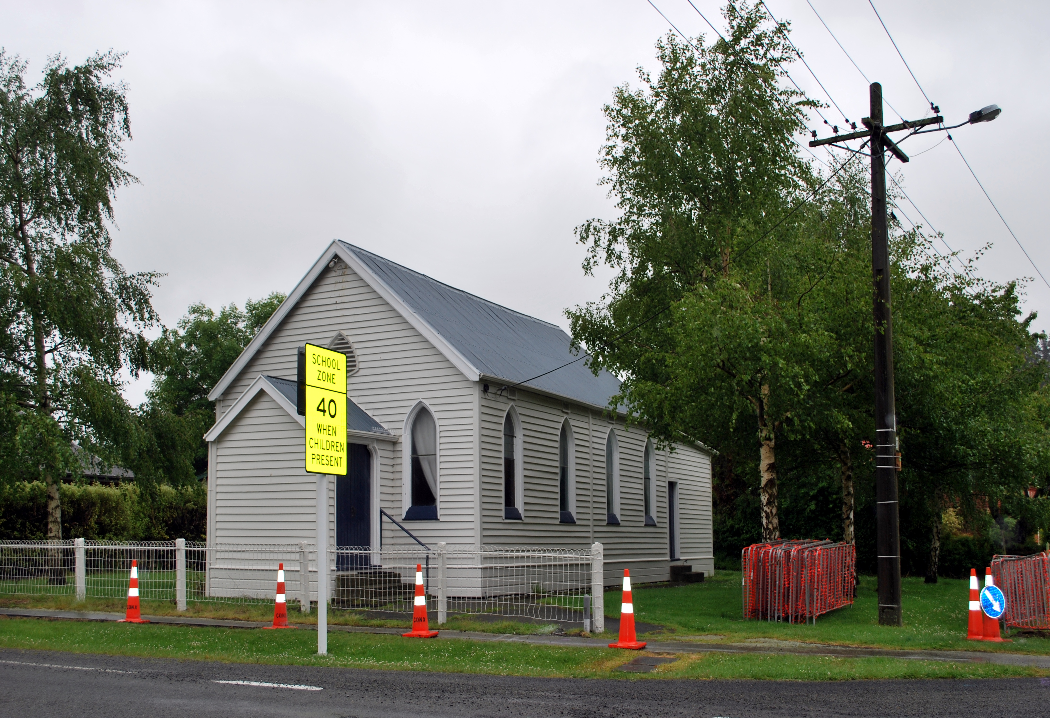 A church at Glentunnel, New Zealand